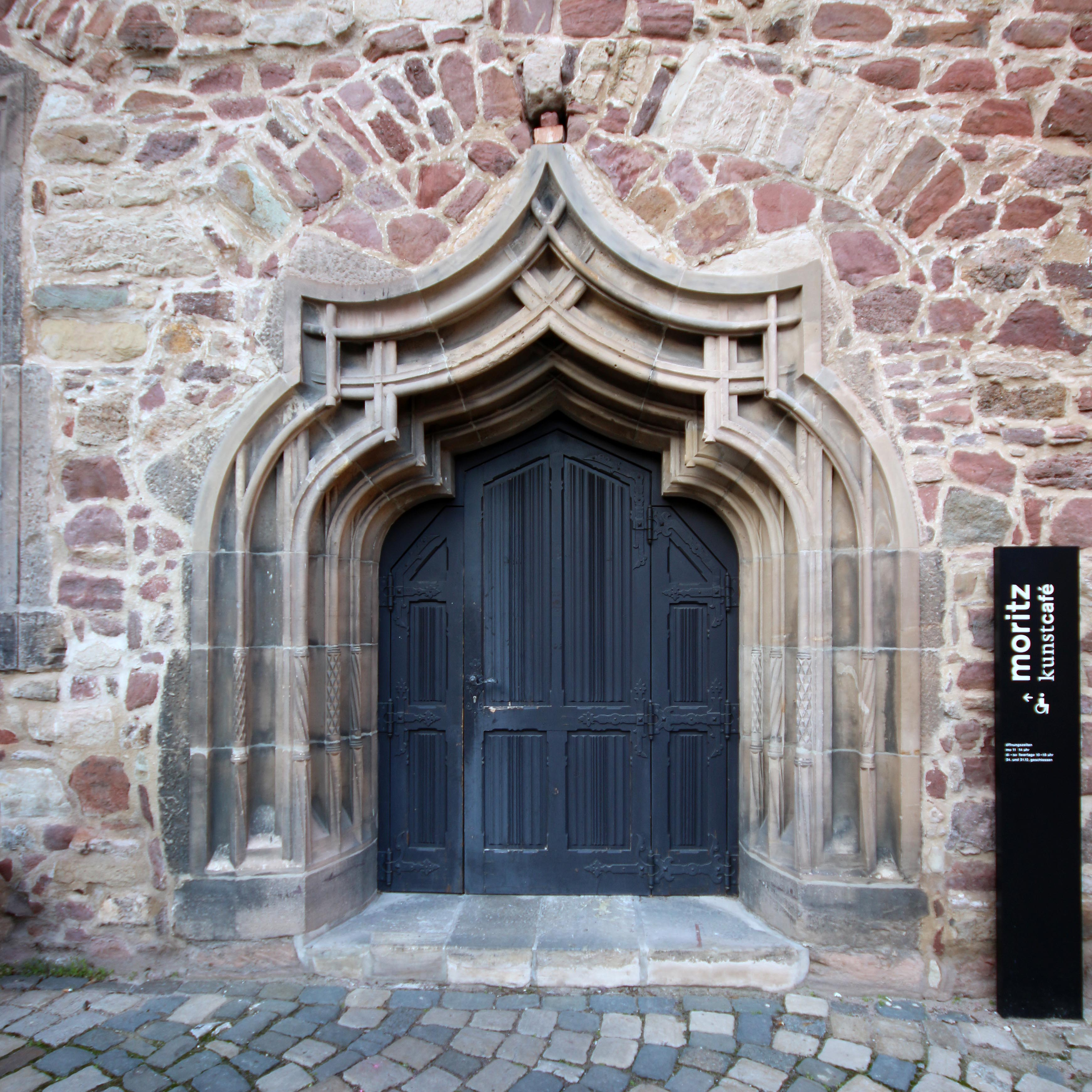 Moritzburg, Door at the Northwing